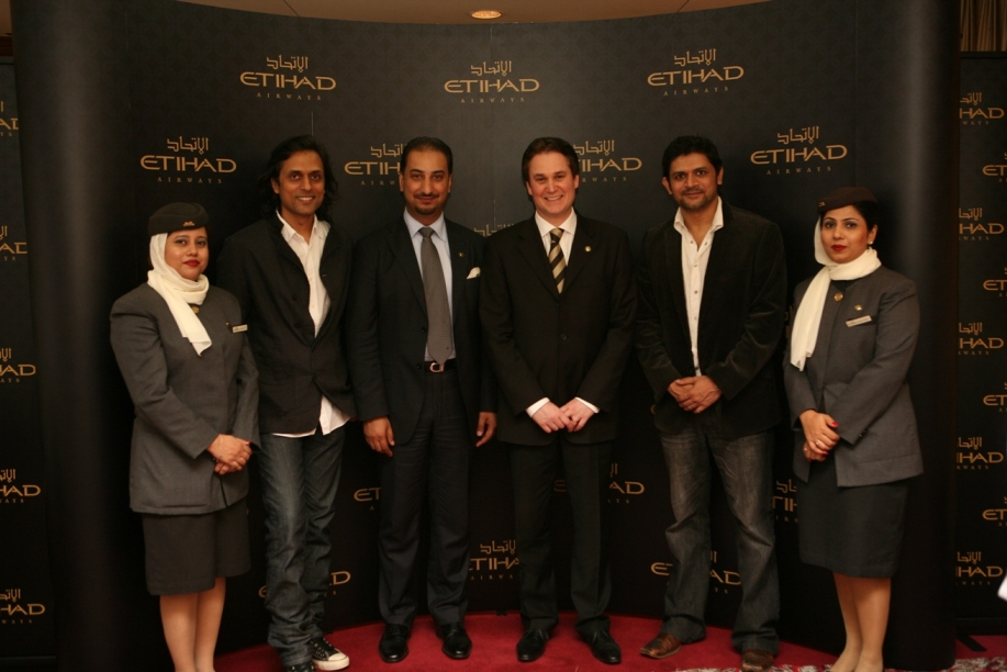 Strings (band) In June 2010, Strings signed a one-year partnership with Etihad Airways to become its brand ambassadors with the core idea to promote the real image of Pakistan to the global market via the band’s music.